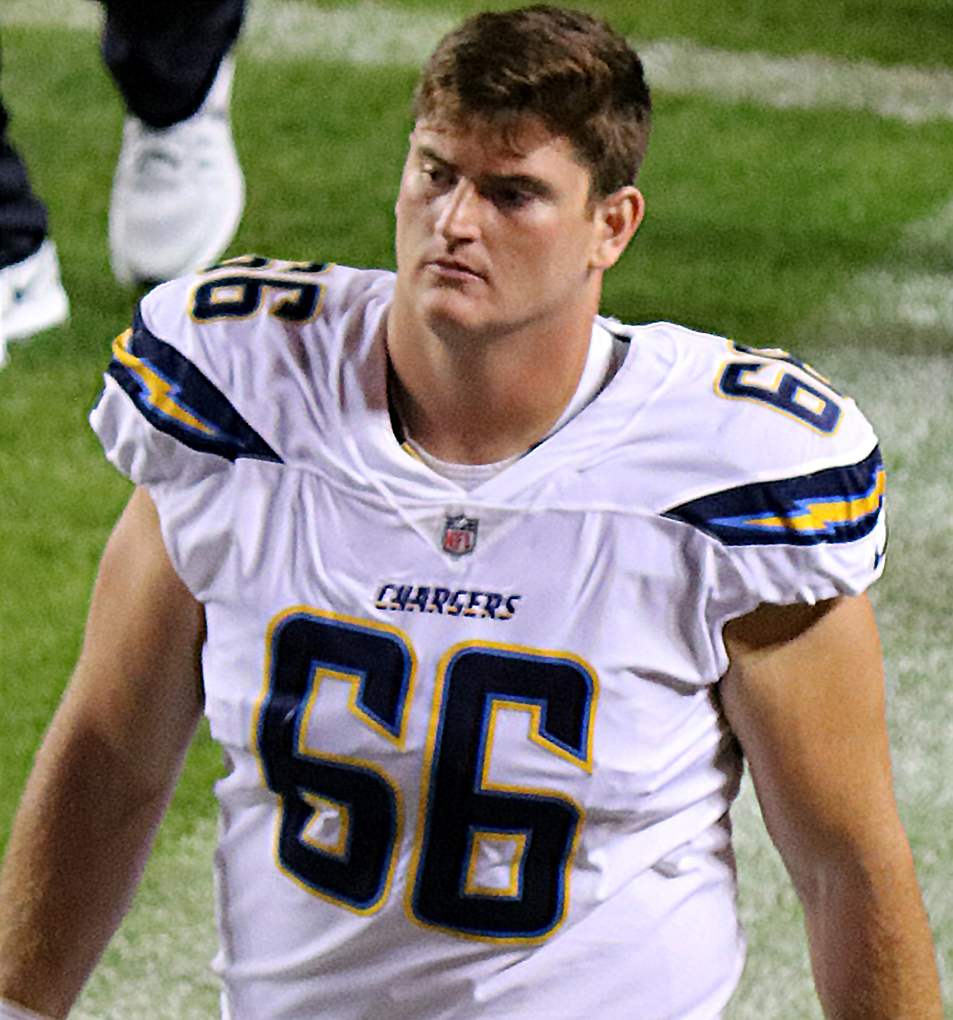 Dan Feeney, a player on the National Football League.